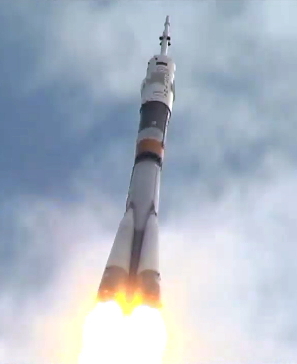 Soyuz TMA-05M rocket ca 25 s after launch